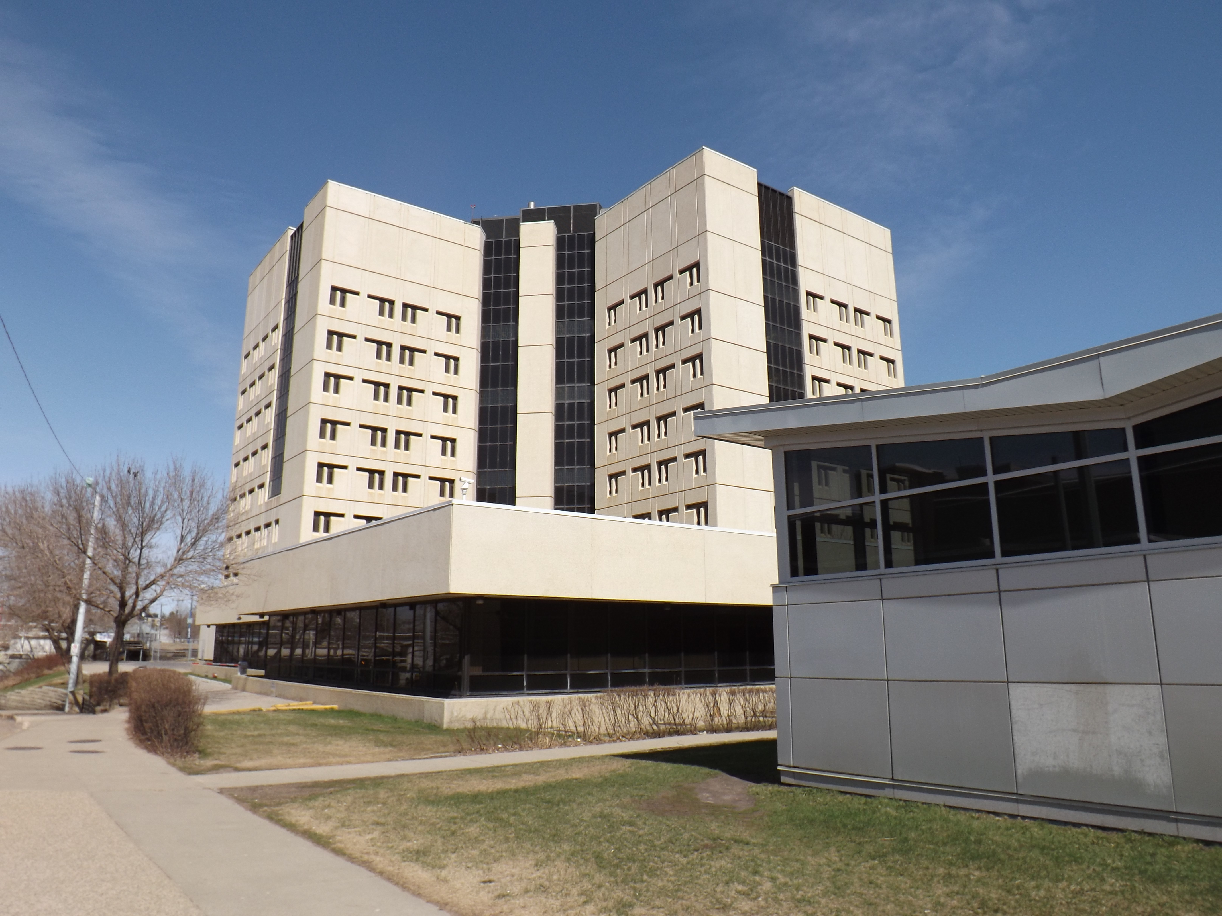 The old Edmonton Remand Centre in March 2013. Looking north on 97 Street NW.